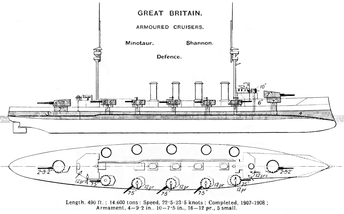 Right elevation and deck plan of British Minotaur class armored cruiser. Numbers on top diagram show armour thickness (shaded areas) in inches. Numbers on bottom diagram show size of guns in inches.